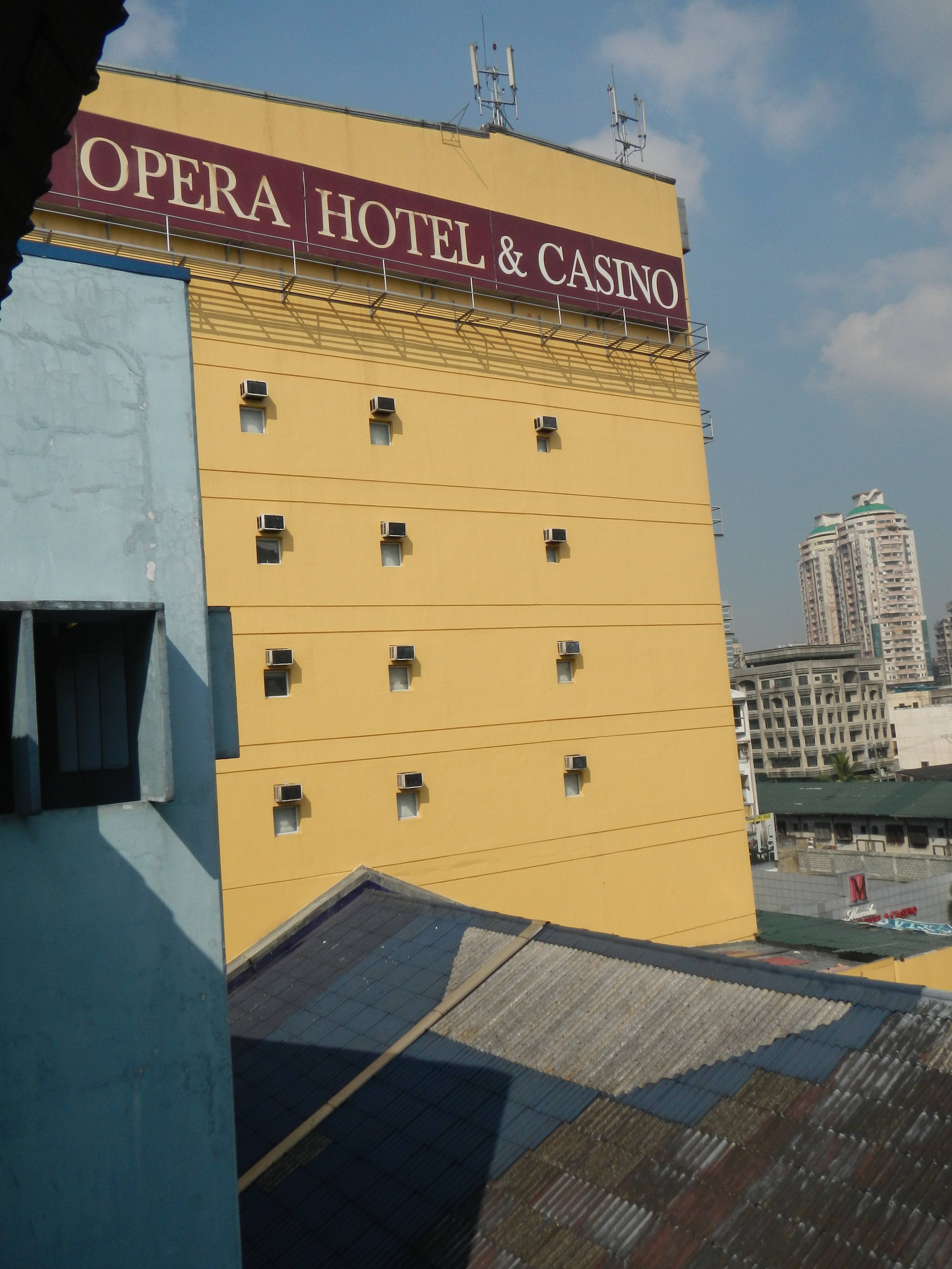 Upload Wizard Panorama photos -- (General description, 3-dimension angle by angle photography of this town, church & landmarks) -- the elevated walkway Connections - Transfer to Yellow Line via elevated walkway to Doroteo Jose[1] station - Recto LRT Station[2], at [3] in Santa Cruz in Manila - Rizal Avenue[4] named after C.M. Recto Avenue,[5] where the station sits above it - the Manila Grand Opera Hotel [6] Far Eastern University,[7].